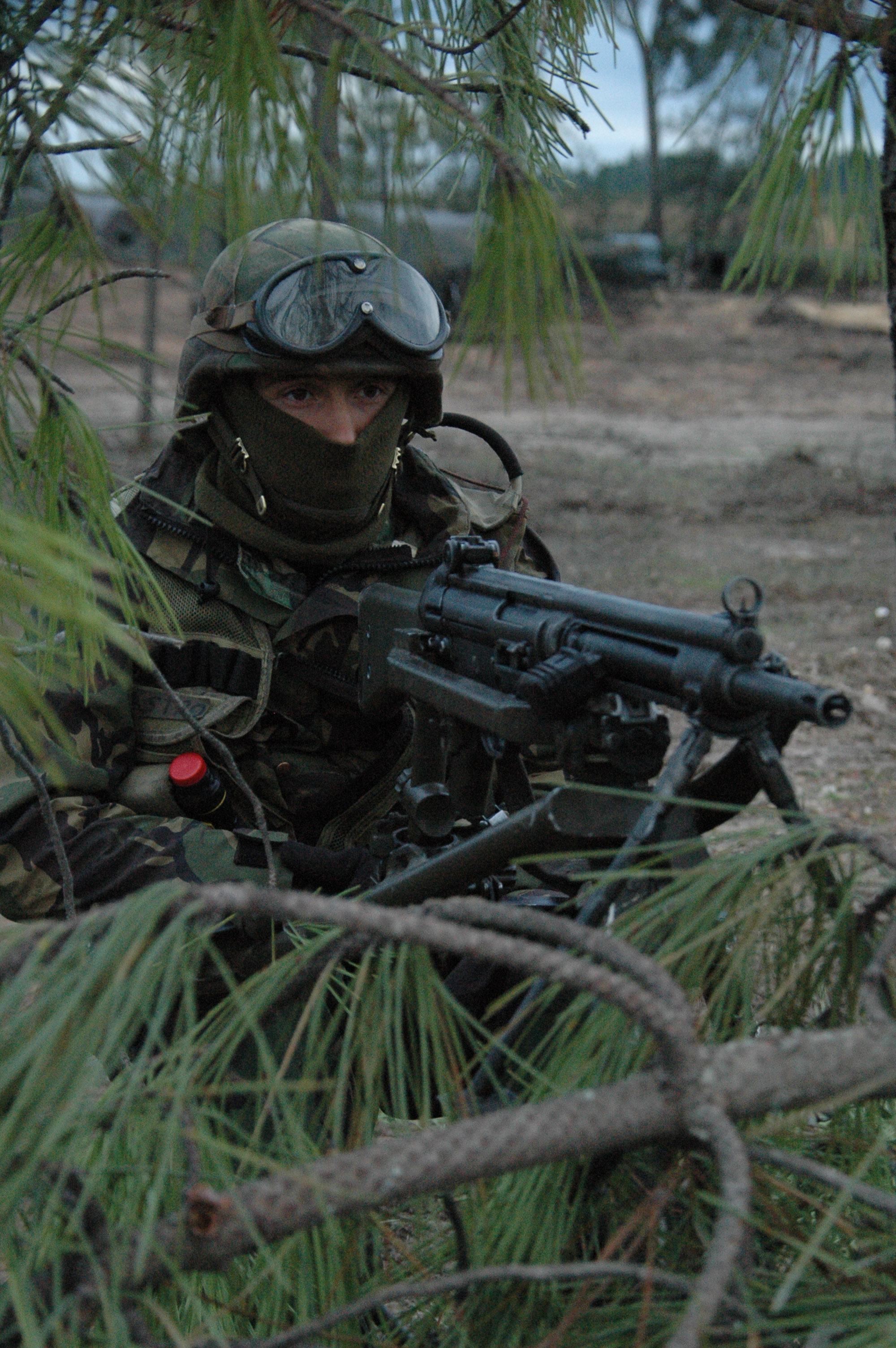 A multinational brigade at the Offensive Operation Assembly Area in Portugal on November 01, 2015 during NATO exercise Trident Juncture 15.